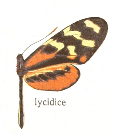 Mechanitis polymnia lycidice